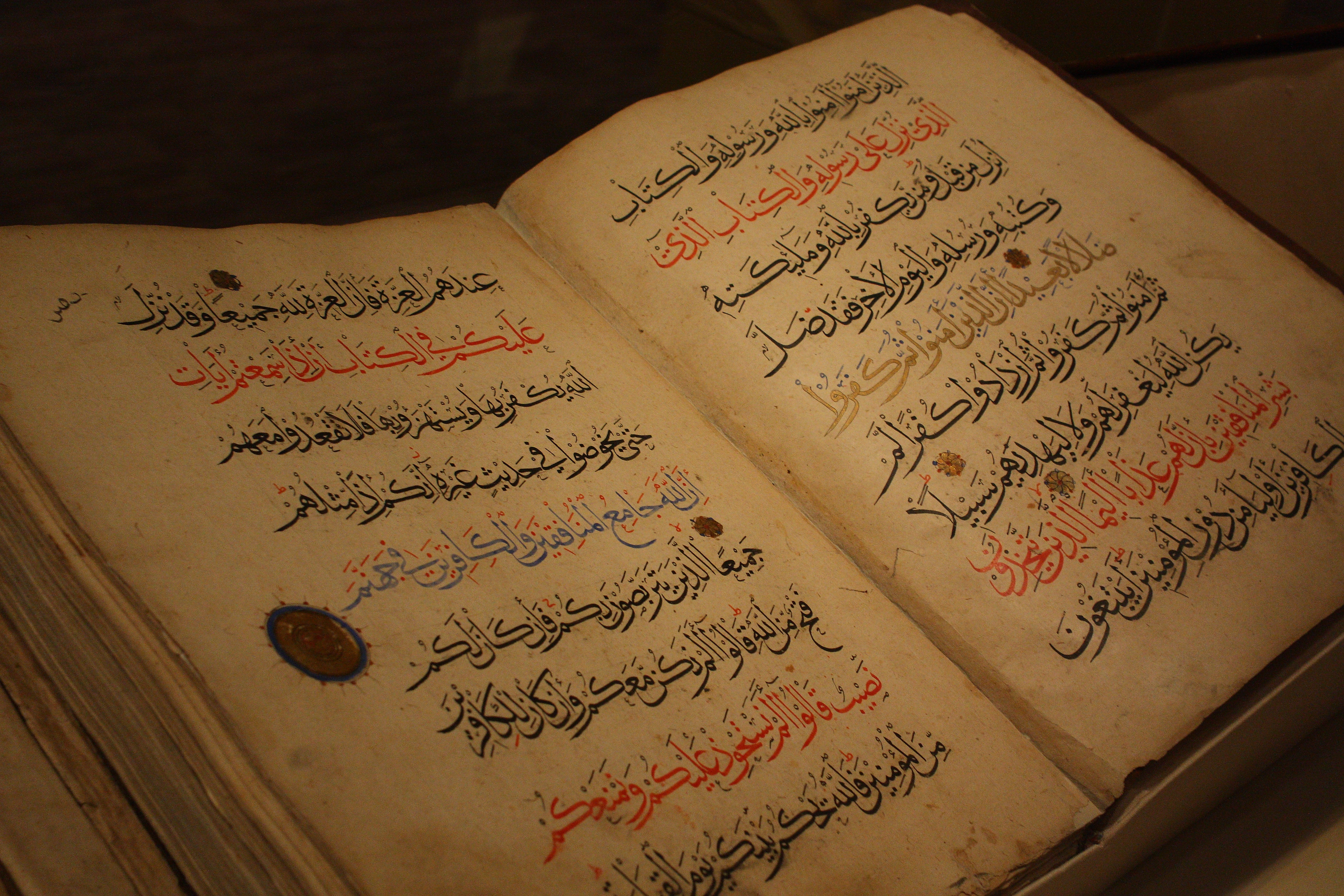 Quran manuscript 12th centry